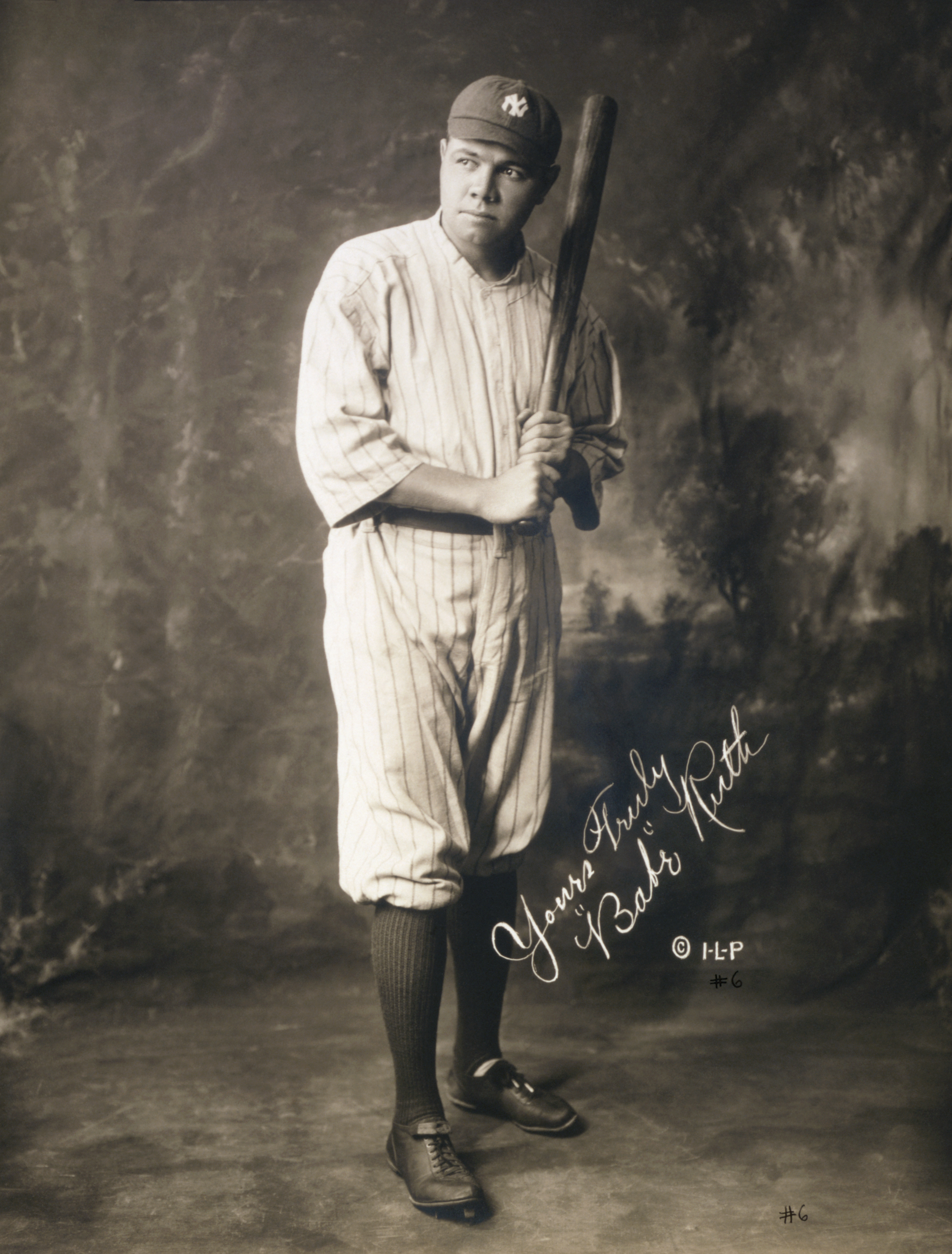 Babe Ruth, full-length portrait, standing, facing slightly right, in baseball uniform, holding baseball bat. Facsimile signature on image: "Yours truly "Babe" Ruth."